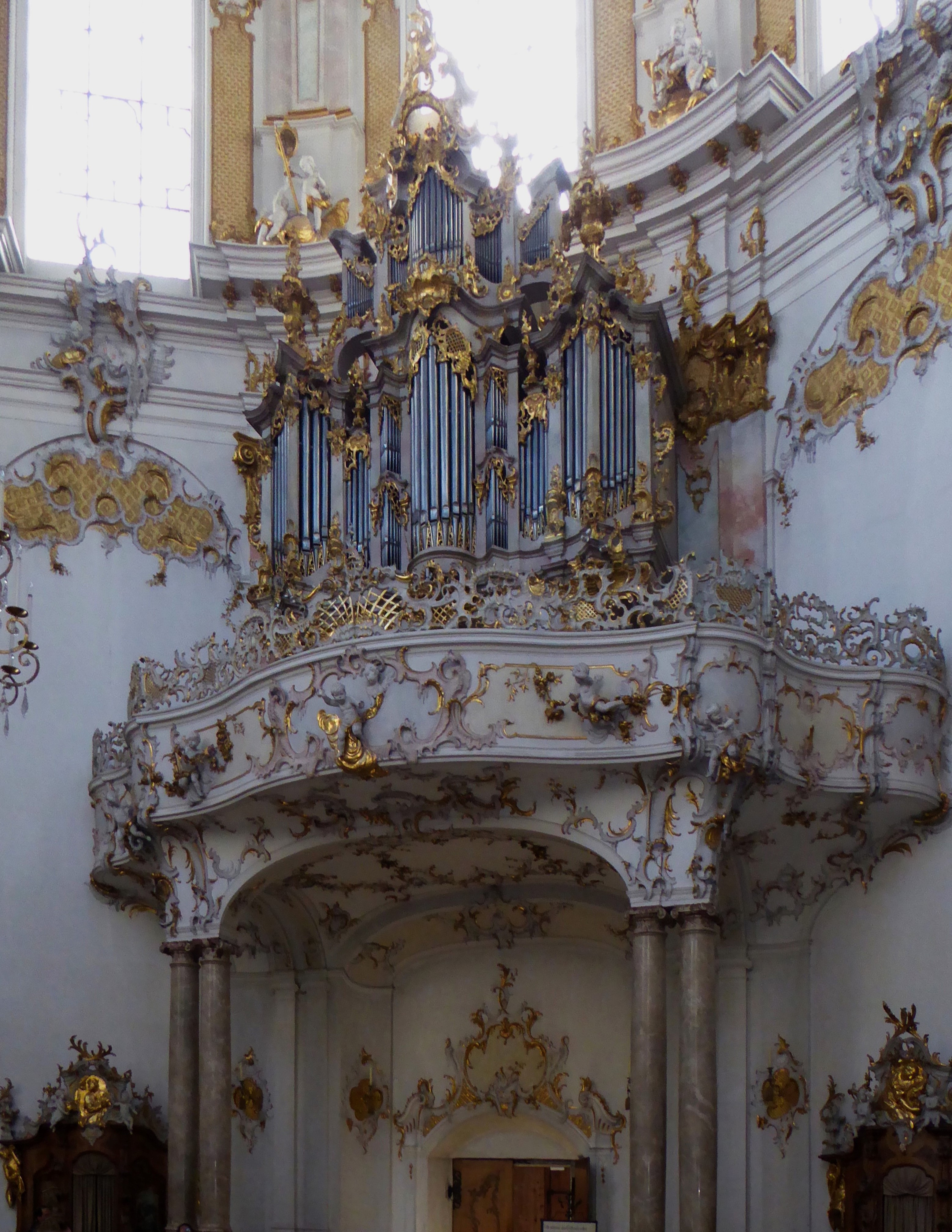 Ettal Abbey